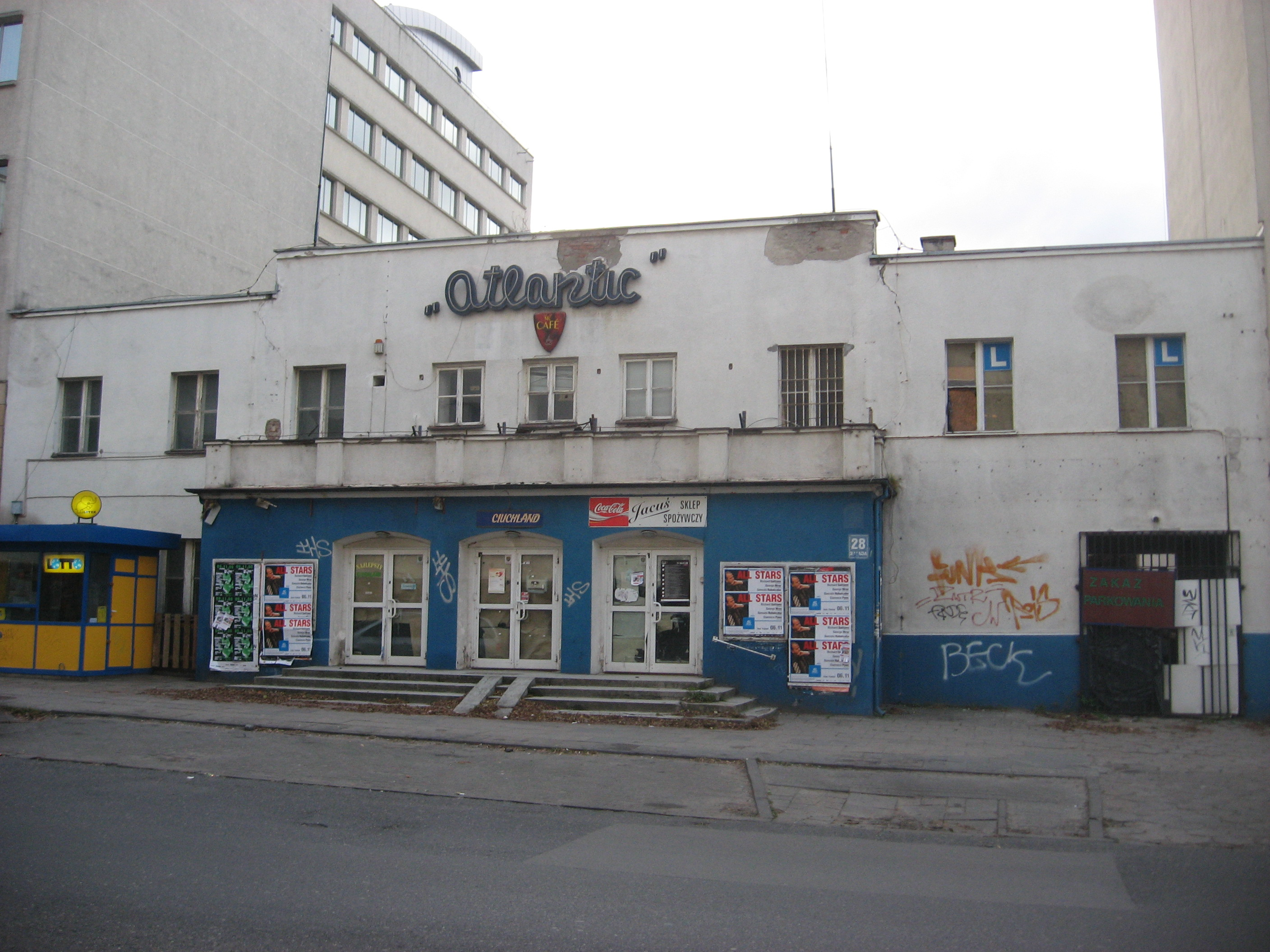 Closed cinema Atlantic in Gdynia.